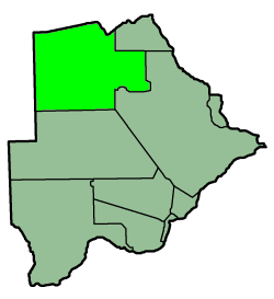 Credit: Sascha Noyes, 2004 Info: Map of the Ngamiland District in Botswana; Created with the GIMP